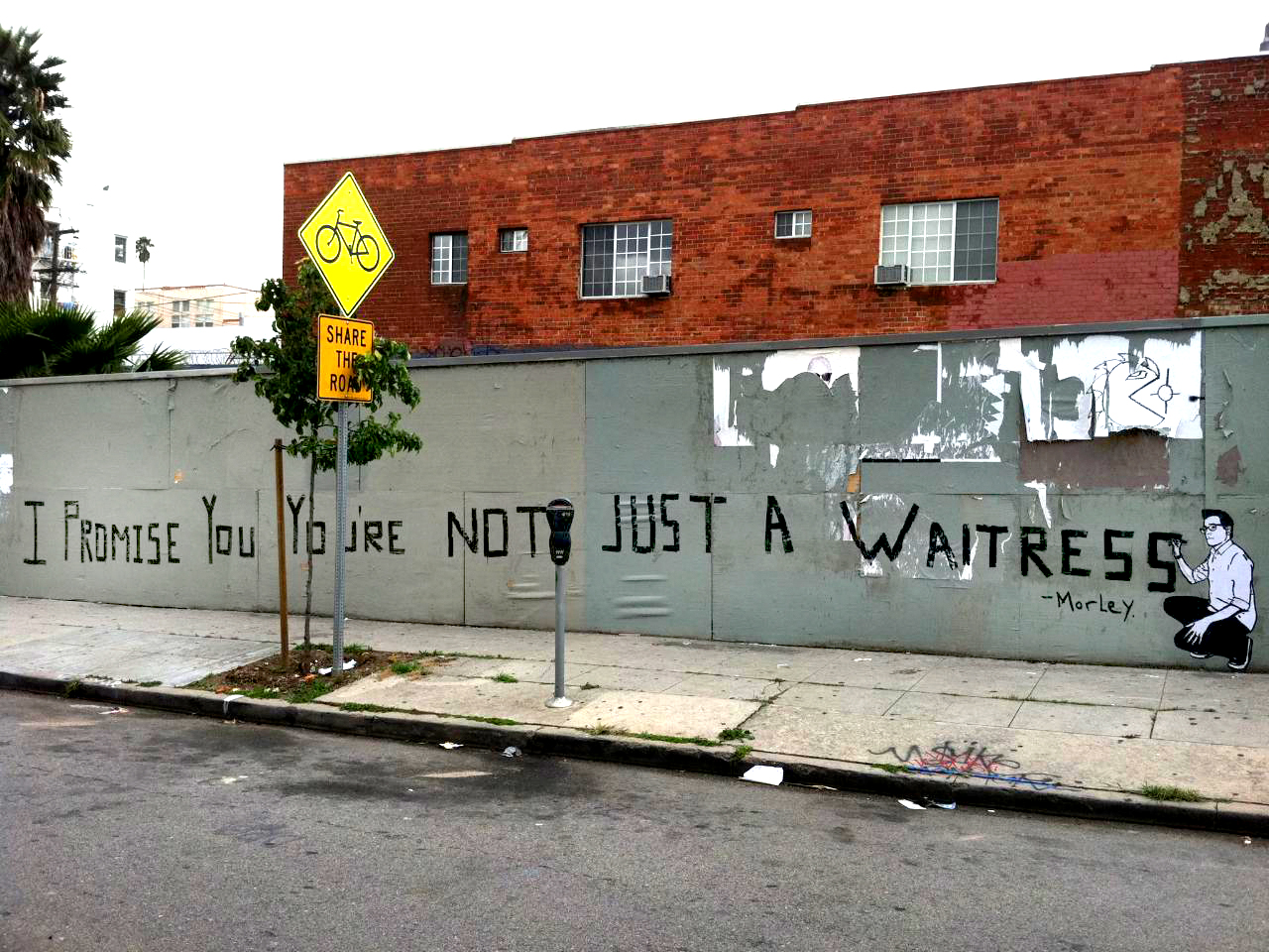 A street art piece by the artist Morley